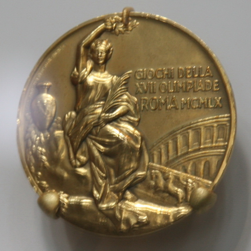 1960 Rome Olympic Games, Gold Medal, Al Oerter , Track and Field Discus Throw